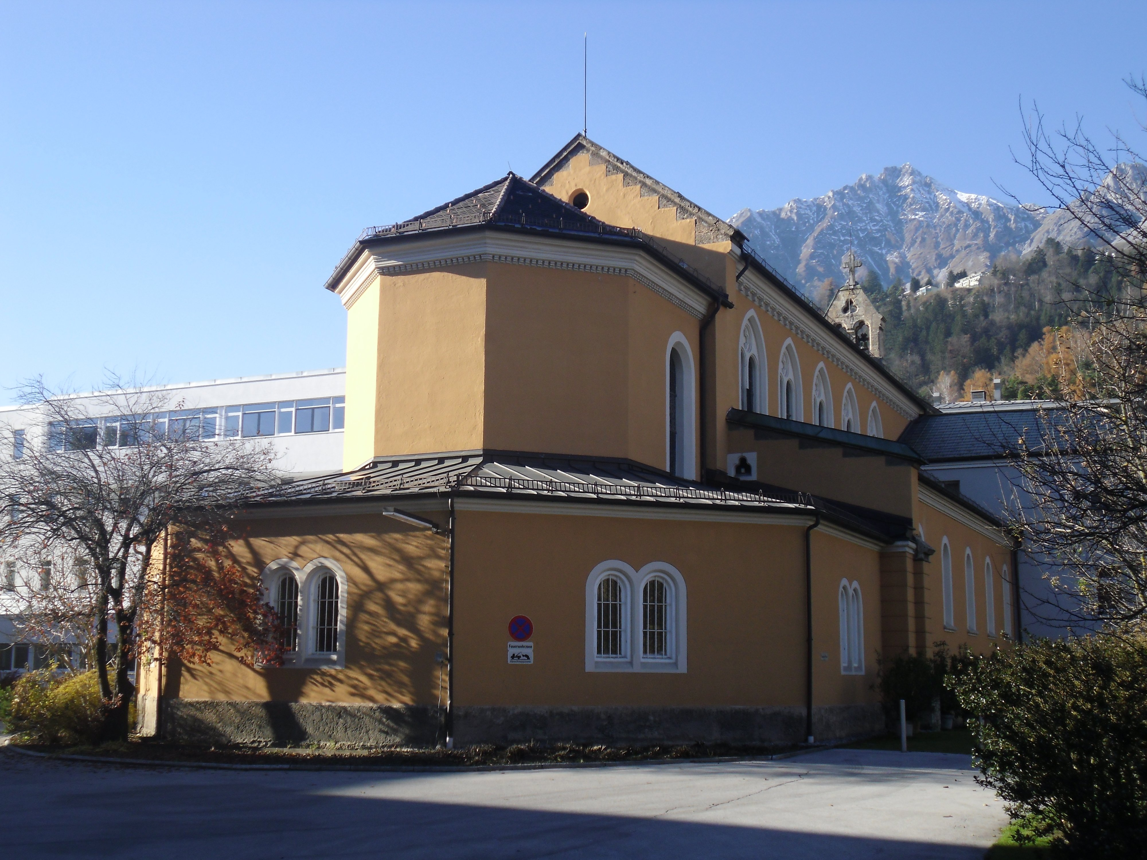 Klosterkirche Maria Unbefleckte Empfängnis d. Barmherzigen Schwestern (m. Kreuzgang)